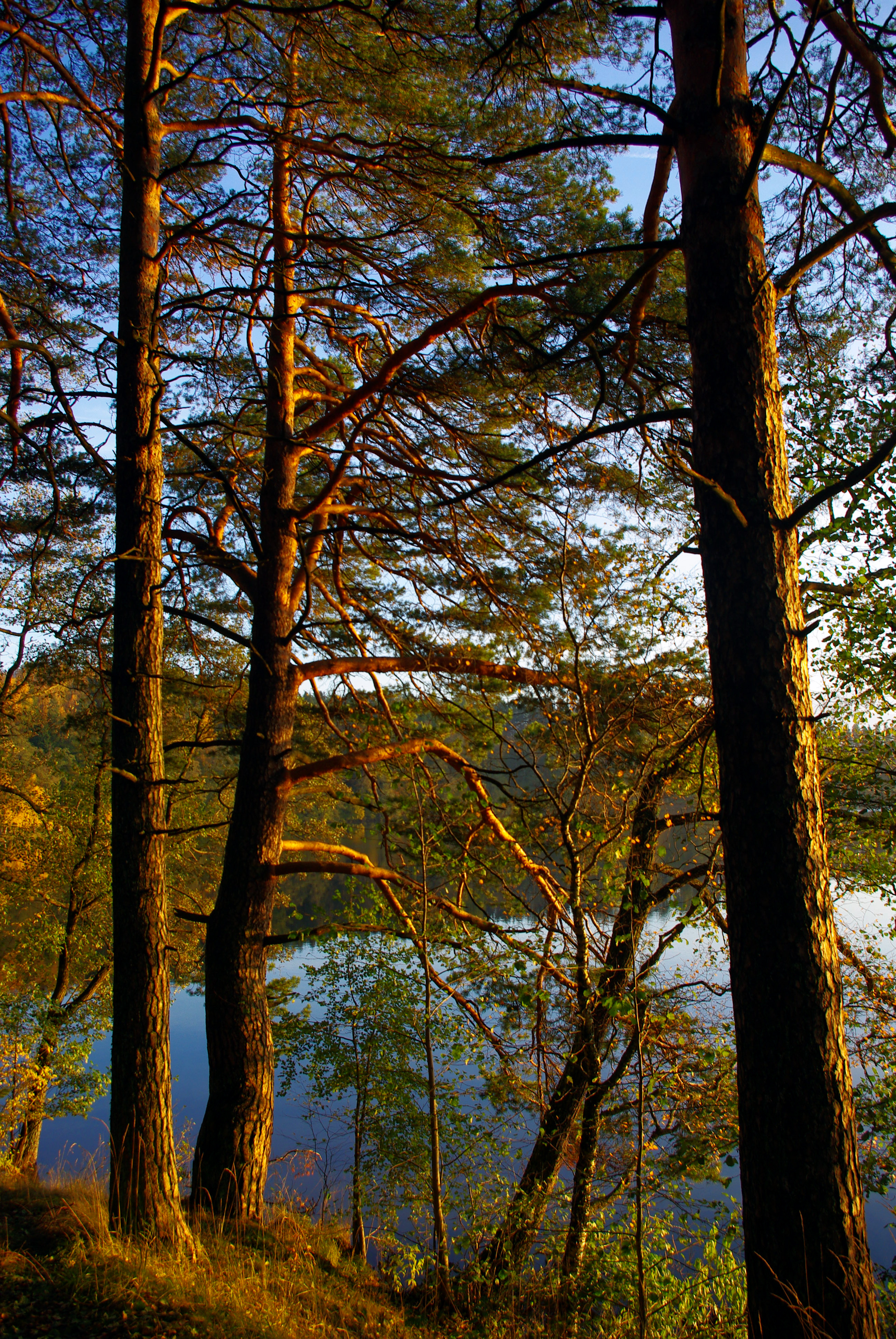 Uljaste Esker